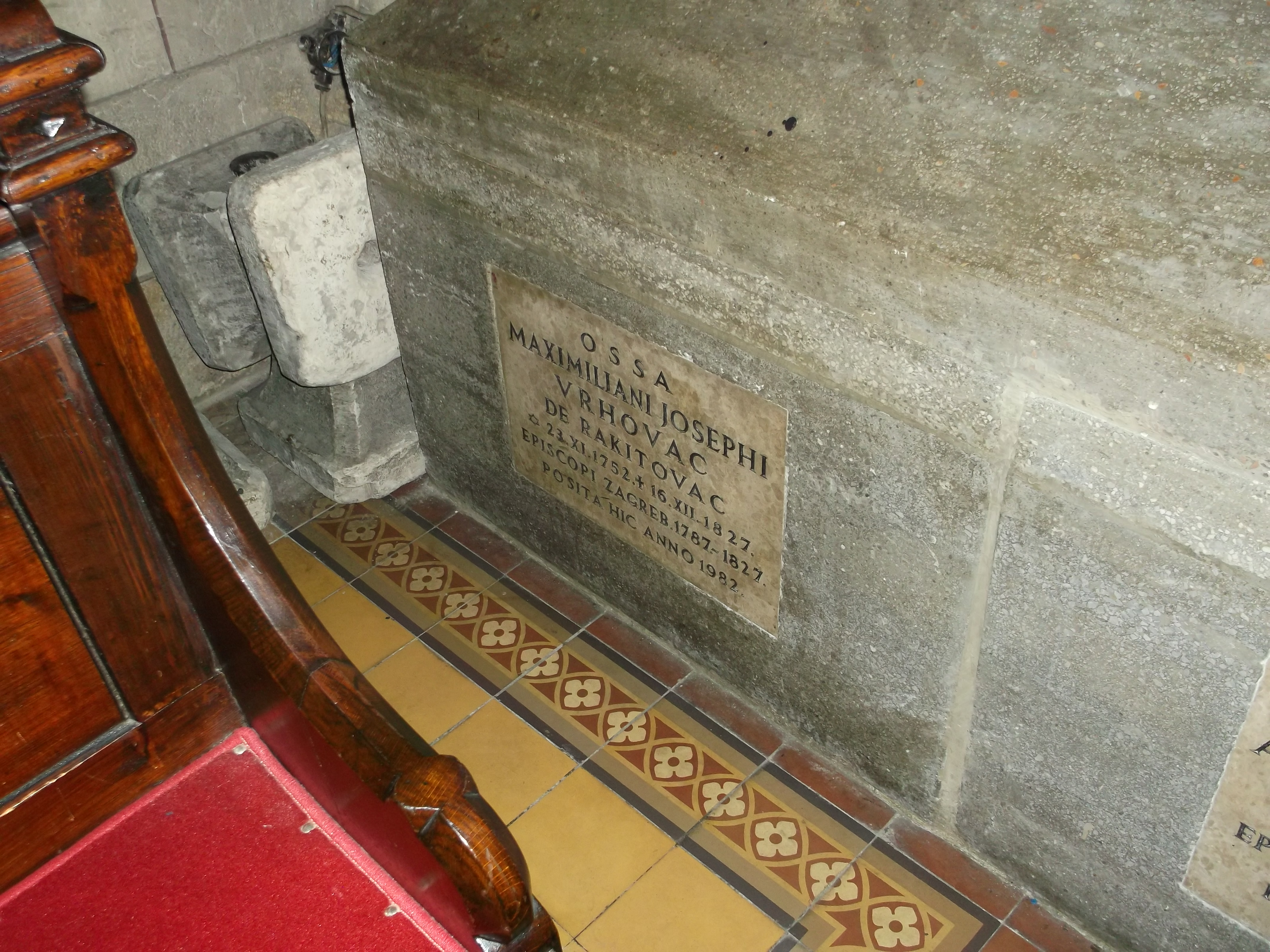 The sarcophage of Maksimilijan Vrhovac (1752-1827) bishop of Zagreb in the Zagreb Cathedral